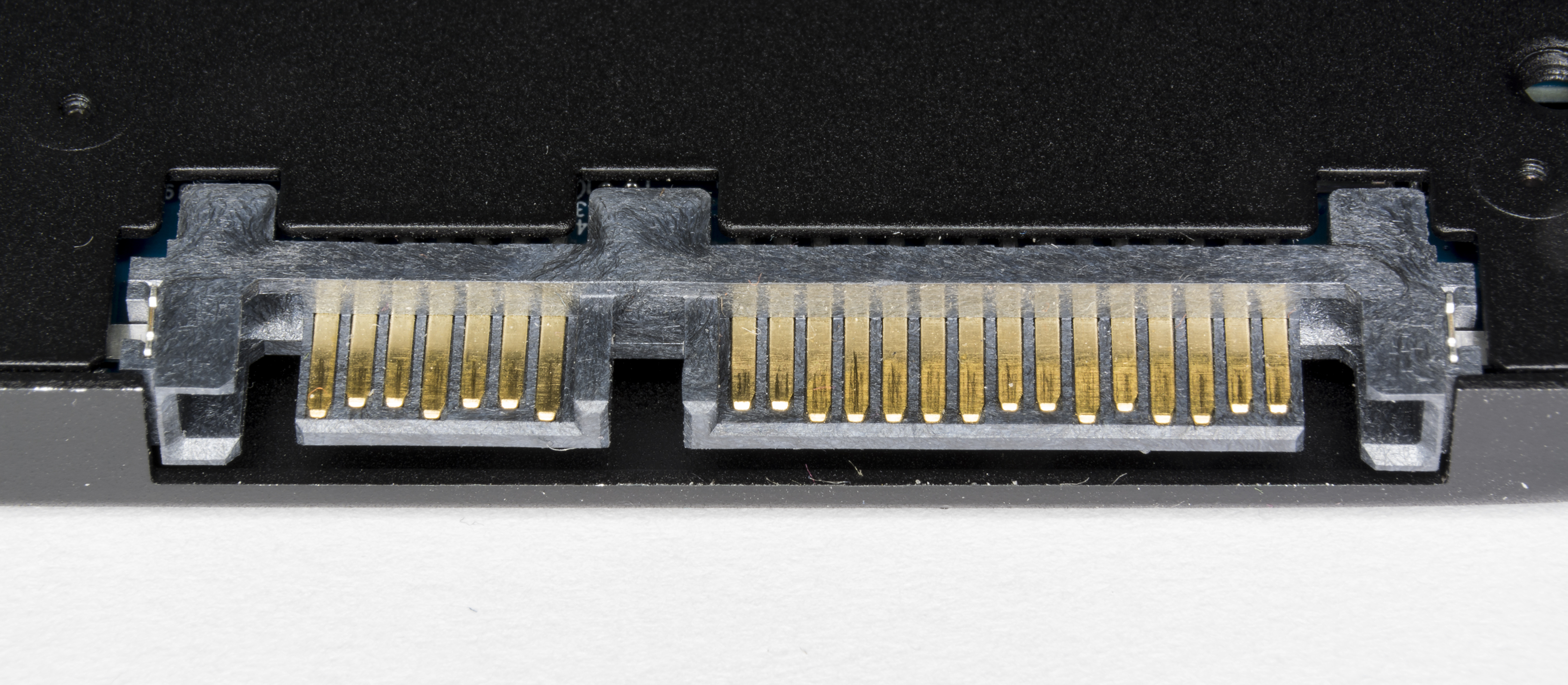 SATA connectors in SSD drive